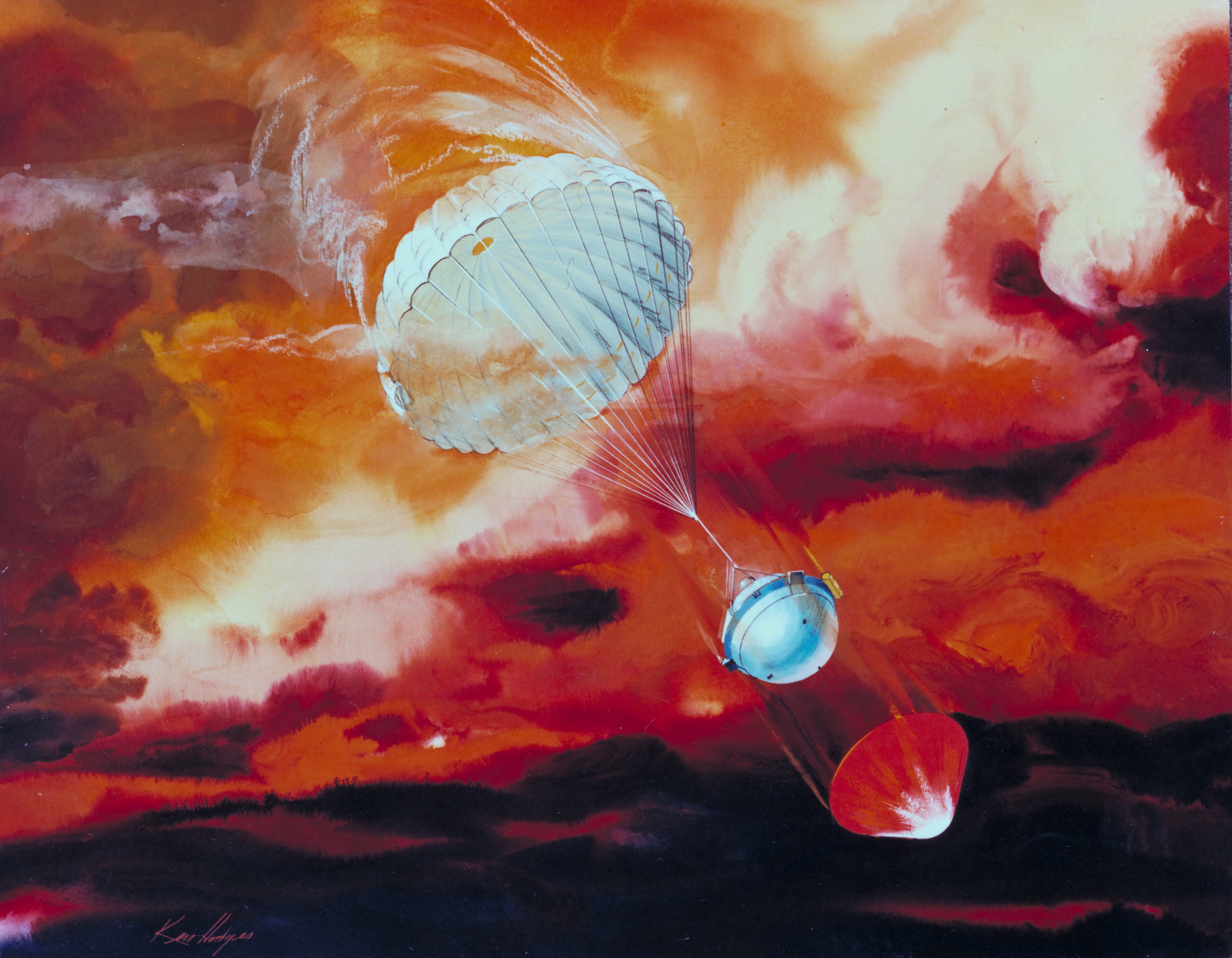 Galileo Probe descending into Jupiters Atmosphere shows heat shield separation with parachute deployed, as it "hangs on the shrouds" and samples the atmosphere of the largest planet in the solar system and key moment in the flight of Galileo. The probe will enter the sunlit side of Jupiter's atmosphere and provide the first direct sampling of the planet's atmosphere. Jet Propulsion Laboratory has over-all management responsibility for Galileo. NASA's Ames Research Center is responsible for development of the probe.